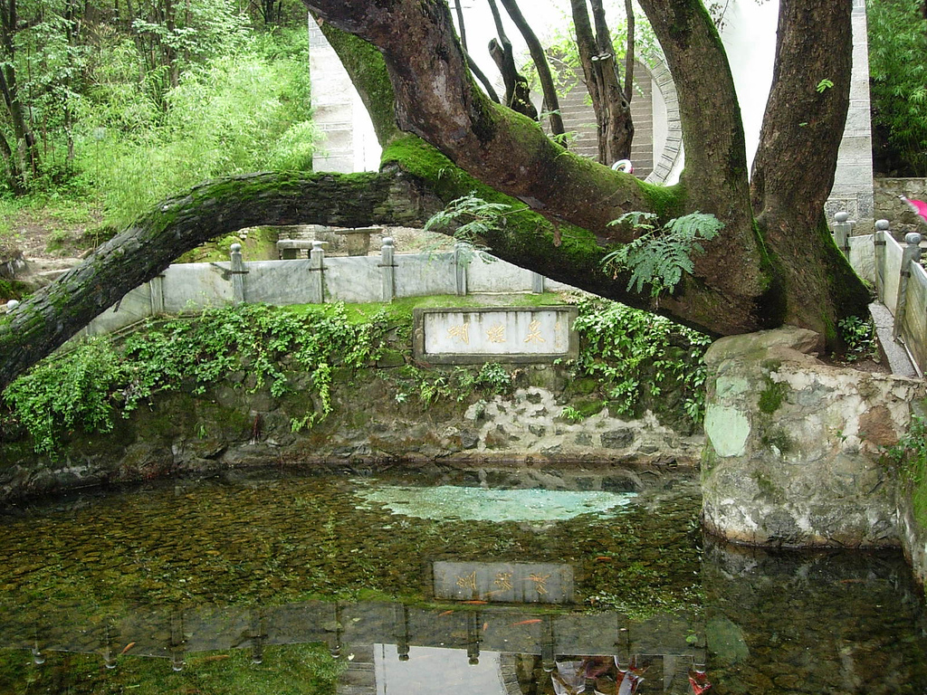 Butterfly Spring, Yunnan, China